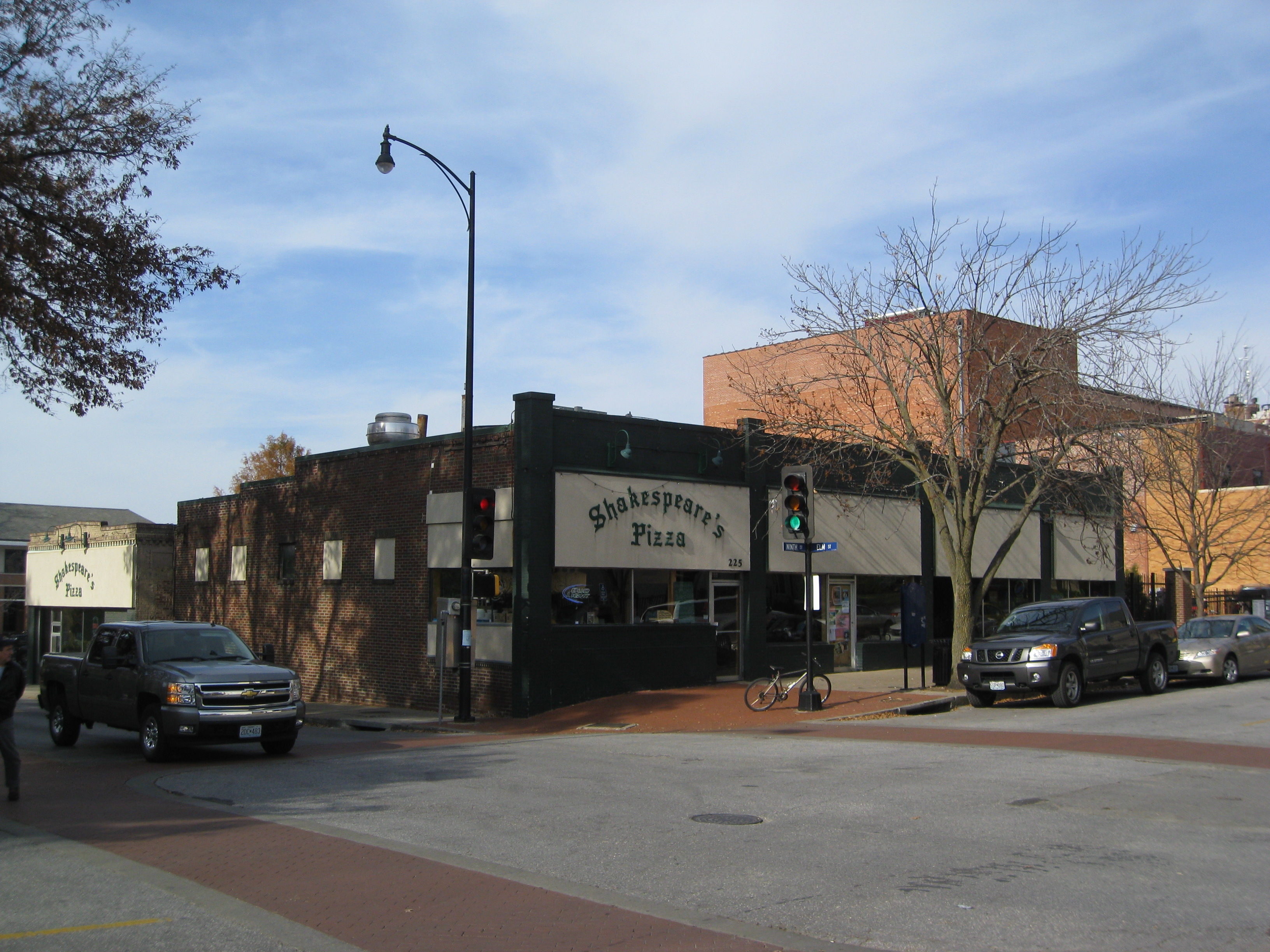 Shakespeare's Pizza at 9th and Elm, Columbia, Missouri on November 20, 2010